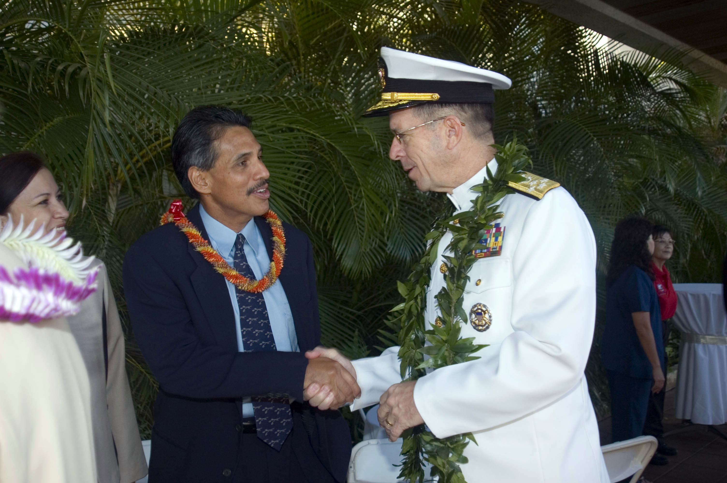 Pearl Harbor, Hawaii (Dec. 7, 2005) – Chief of Naval Operations Adm. Mike Mullen is greeted by LT. Governor of Hawaii, Duke Aiona during the 64th commemoration of the Dec. 7, 1941 attack on Pearl Harbor, Hawaii. The ceremony, which included remarks by keynote speaker Chief of Naval Operations Adm. Mike Mullen, is held annually to honor those who served during the Japanese surprise attack on Pearl Harbor. U.S. Navy photo by Photographer's Mate 2nd Class Dennis C. Cantrell (RELEASED)